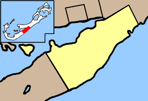 Location map of Paget Parish, Bermuda